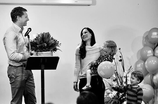 Andrew Hastie MP Election night 18 May 2019 Ruth and children (DB)